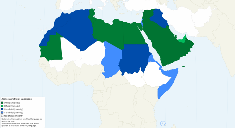 Nations in which Arabic is an official language (de facto or de jure). Arabic in countries with more than 50% arabic-speakers is considered a majority language, otherwise it is a minority language. Sources: for working out the percentage of arabic speakers in the country. for the official status of Arabic in each country. for creation of man